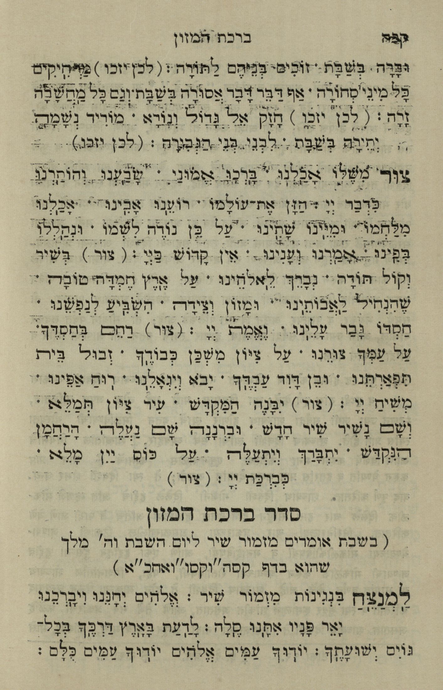 Jewish Prayer Book (Siddur) in Hebrew and Marathi , translated from Hebrew to Marathi in 1889 by Rajpurkar, Joseph Ezekiel